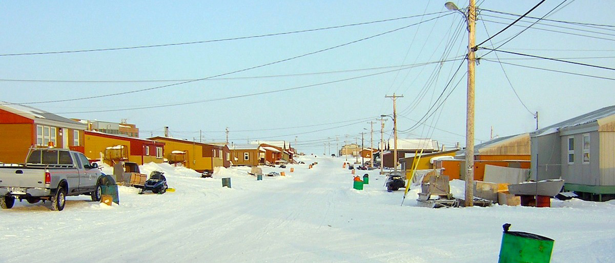 View of the main street of the hamlet of Gjoa Haven, Nunavut